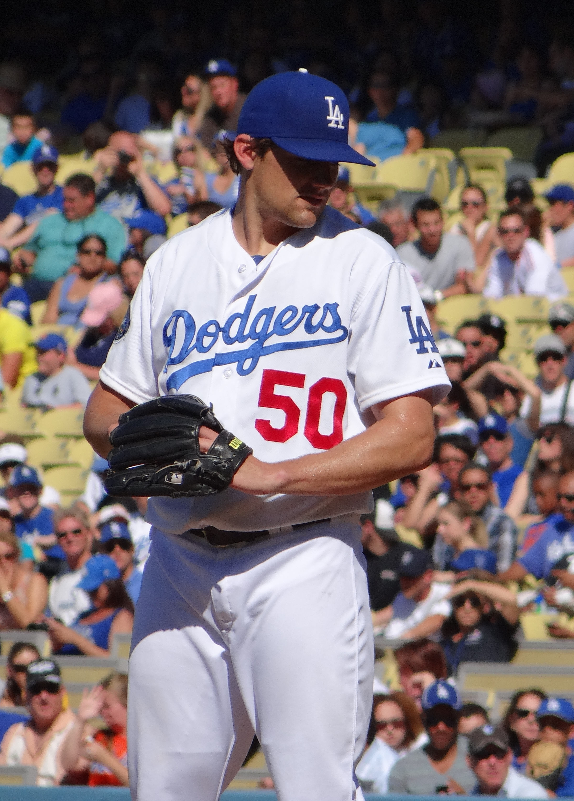 Nathan Eovaldi pitching at Dodger Stadium, June 30, 2012